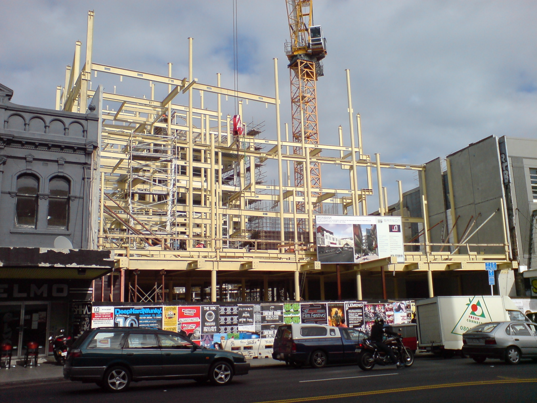 The Ironbank development being built on Karangahape Road in the Auckland CBD, New Zealand.